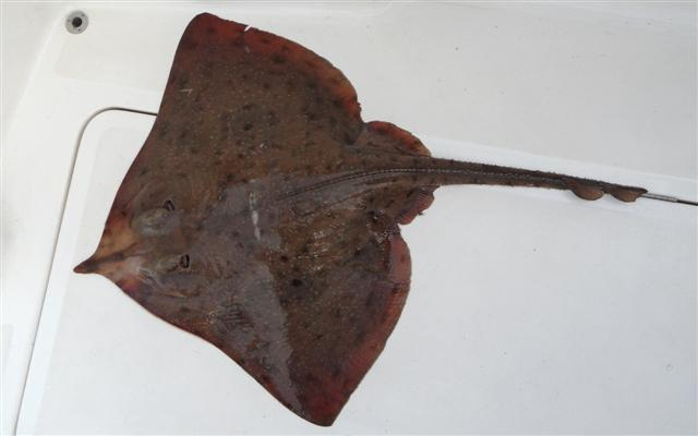 Bottlenose skate (Rostroraja alba) from Gran Canaria